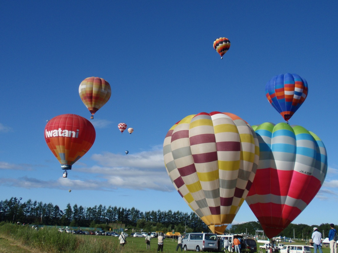 Hokkaido Balloon festa 2008